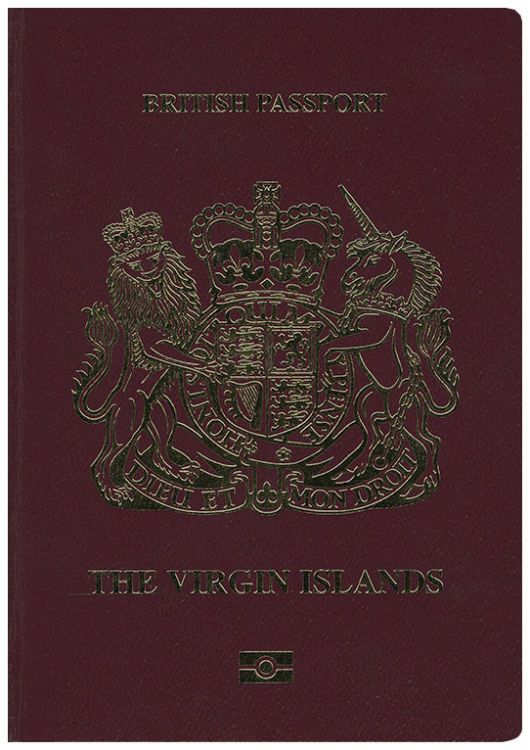 British passport (The Virgin Islands)